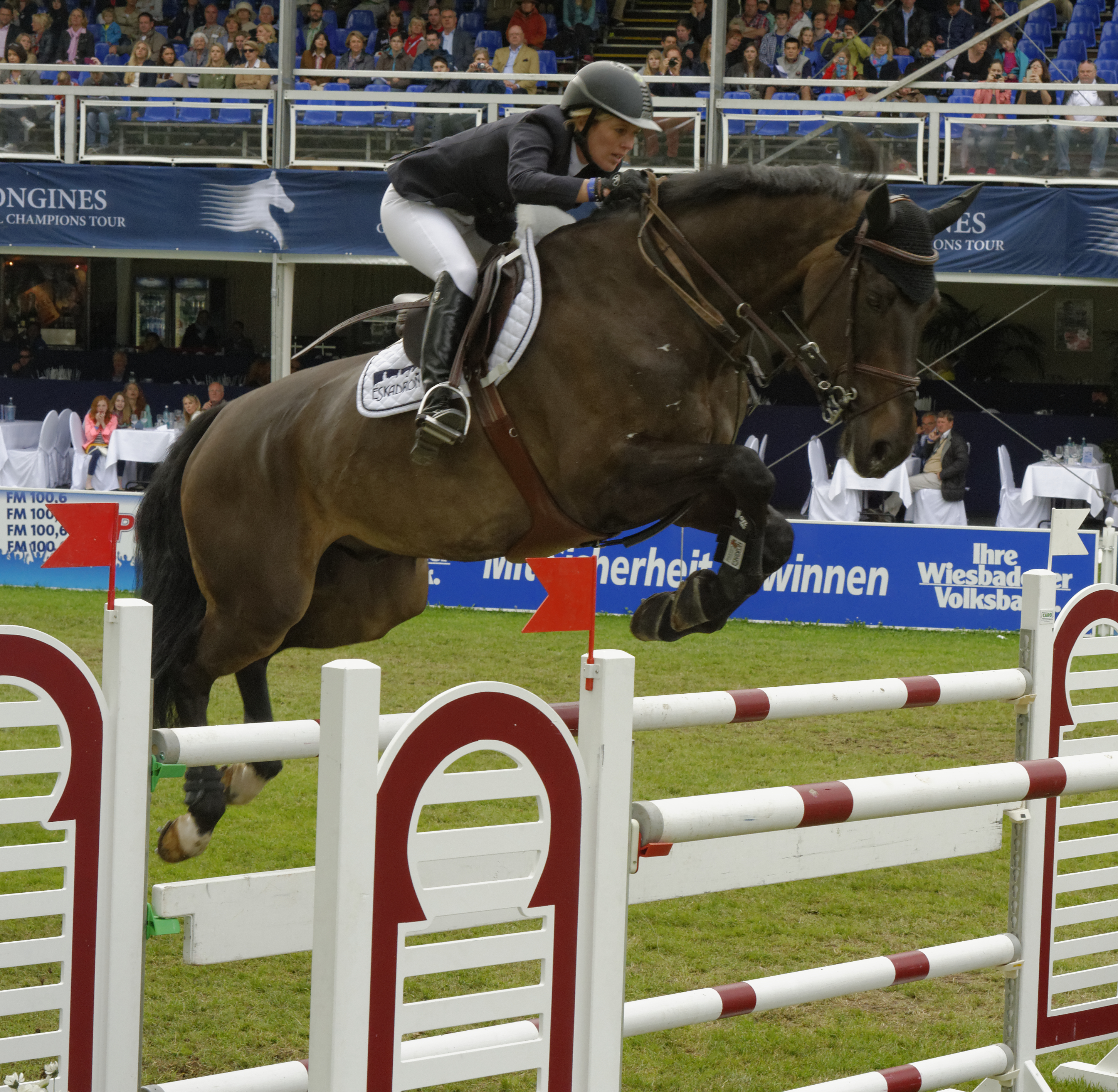 Internationales Pfingstturnier Wiesbaden 2013 The making of this document was supported by the Community-Budget of Wikimedia Germany.